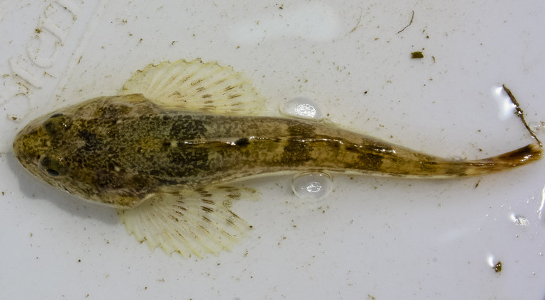 Cottus asper at Mare Island, Solano Co., CA, USA